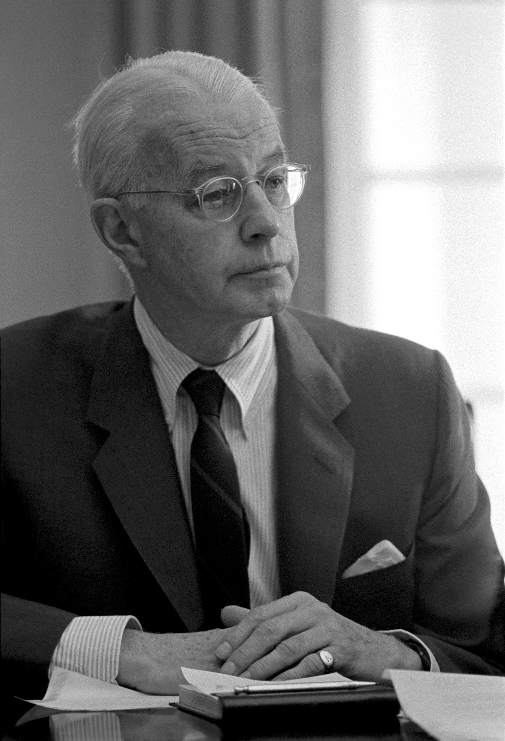 Ellsworth Bunker, advisor to Pres. Lyndon B. Johnson